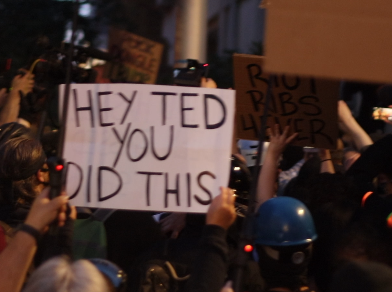 Protest sign against Portland, Oregon mayor Ted Wheeler's allowal of the Portland Police Bureau to fire tear gas during the 2020 George Floyd protests in Portland, Oregon.